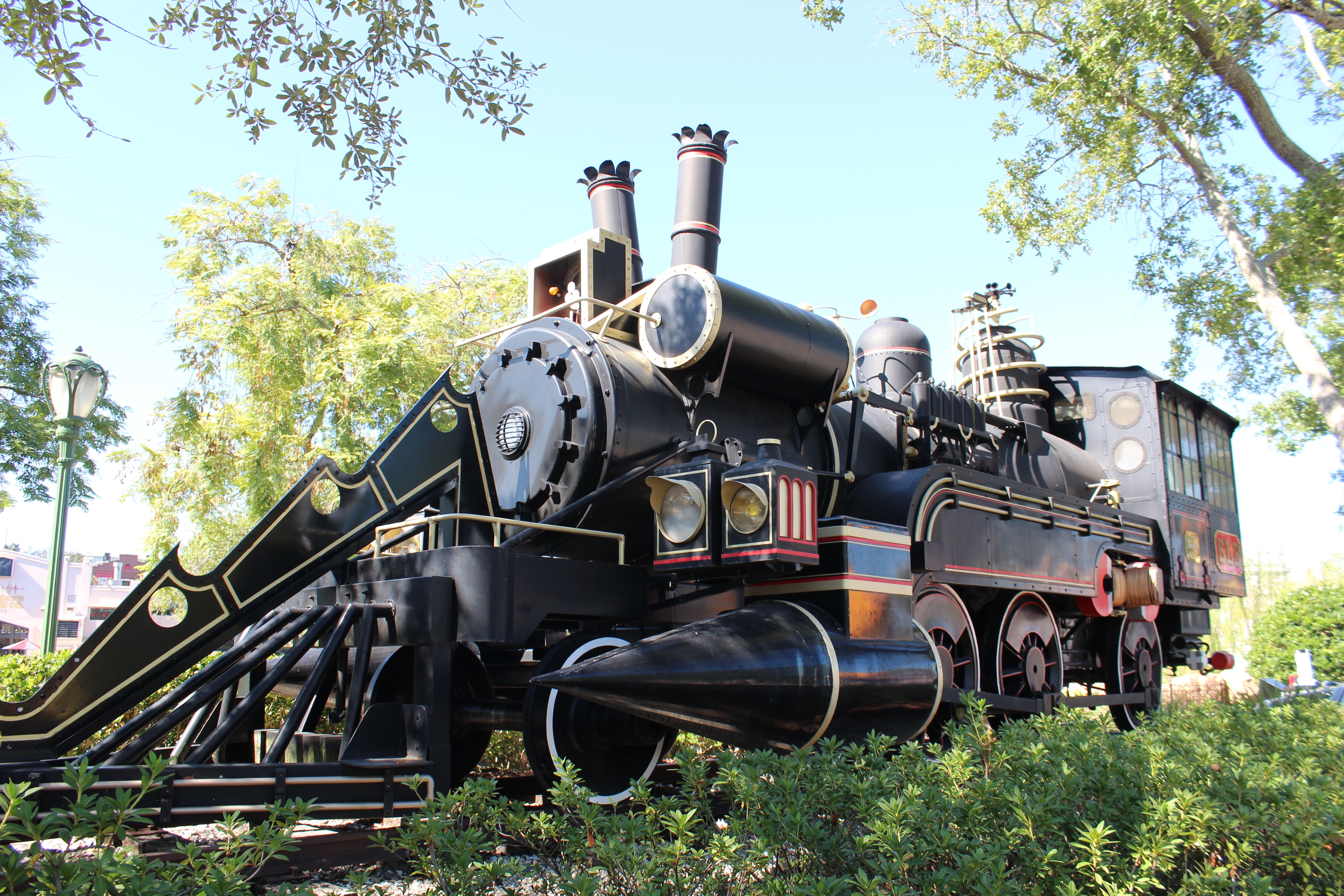 The locomotive from the former Back to the Future: The Ride at Universal Studios Florida and featured in Back to the Future Part III.